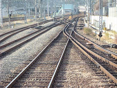 Dual gauge system of Hakone tozan Railway, Odawara Station, Kanagawa, Japan.